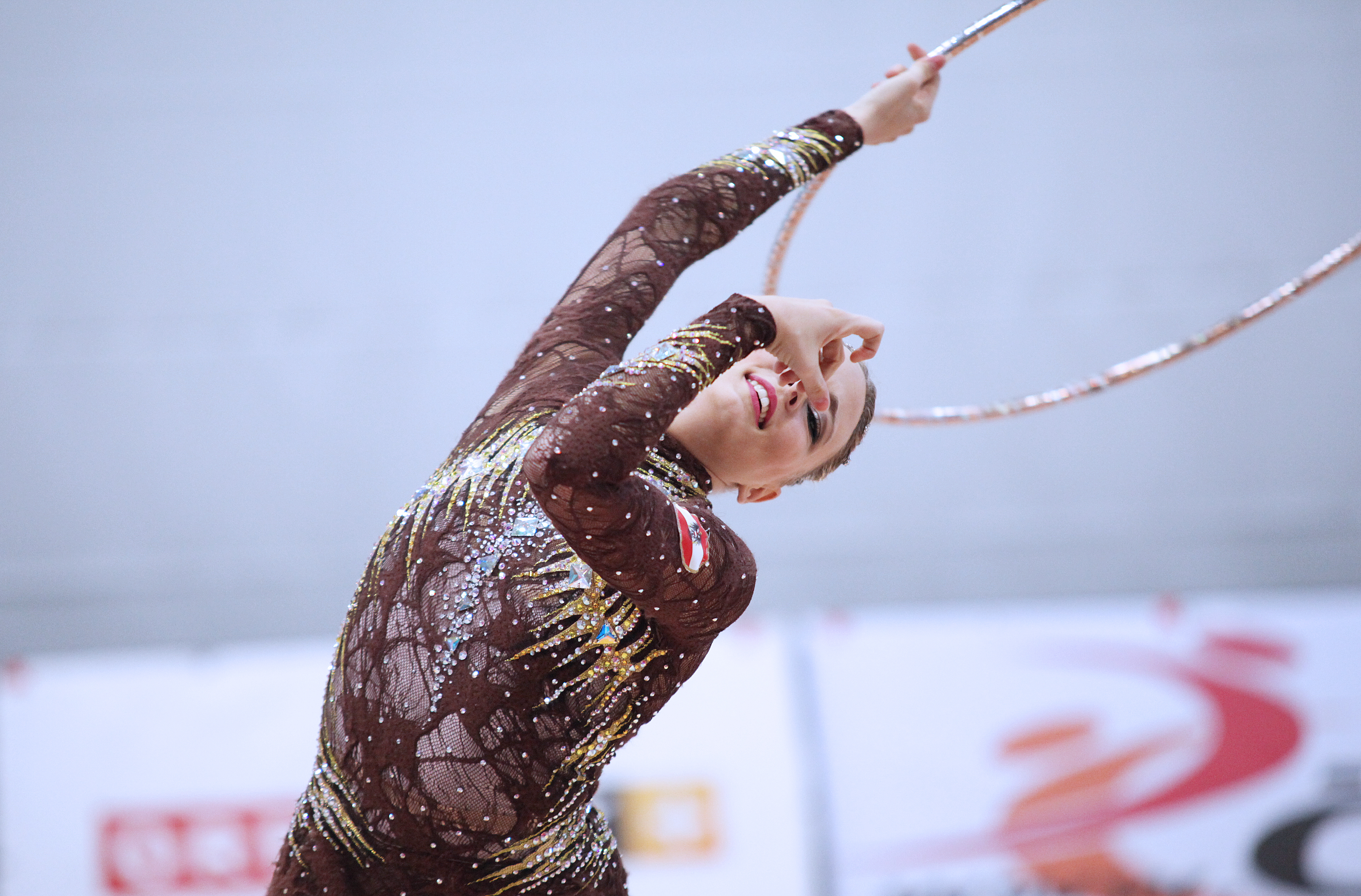 Nicol Ruprecht, Austrian Champion Rhythmic Gymnastics 2014